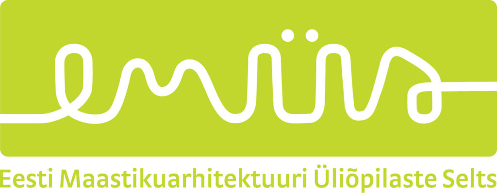 EMÜSi logo